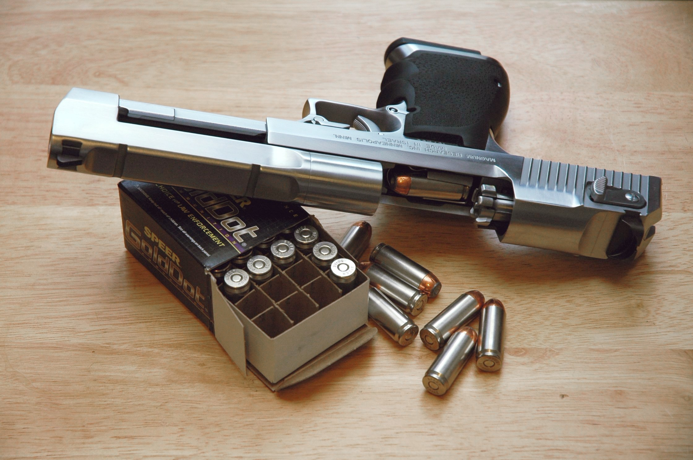 Desert Eagle Pistol beside Speer box of 325 Grain Hollowpoints